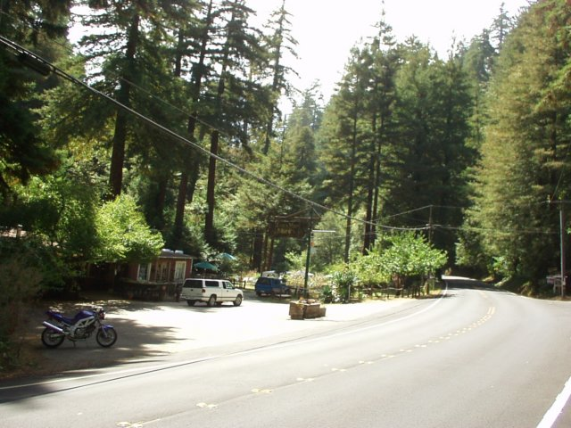 "Downtown" Loma Mar, California.